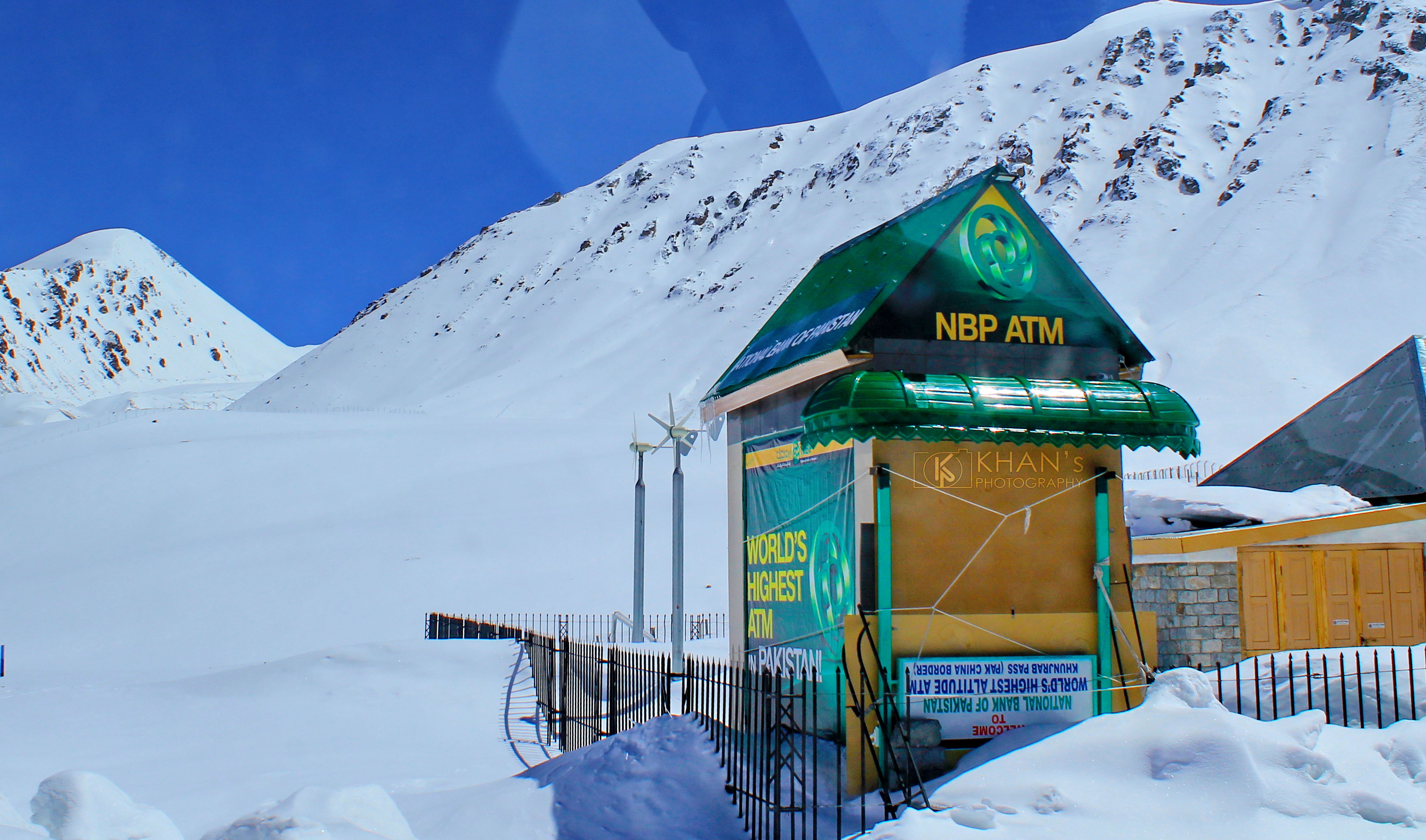 World's Highest ATM, Situated near Khunjerab pass(Pak-China Border) on Karakoram Highway